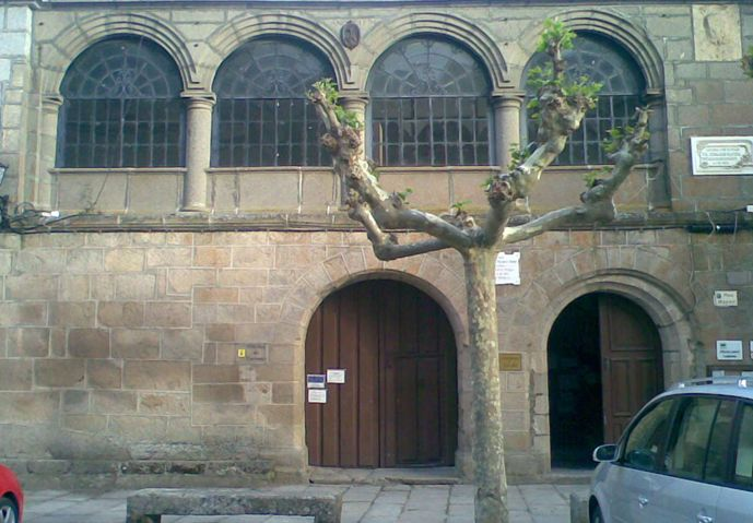 Ayuntamiento de Ledesma. 1484. 1584. 1846-49